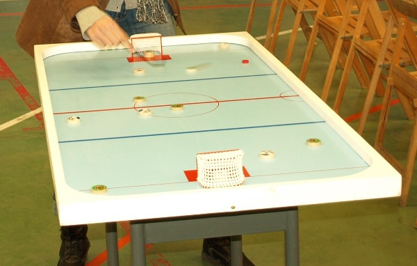 Billiard hockey table